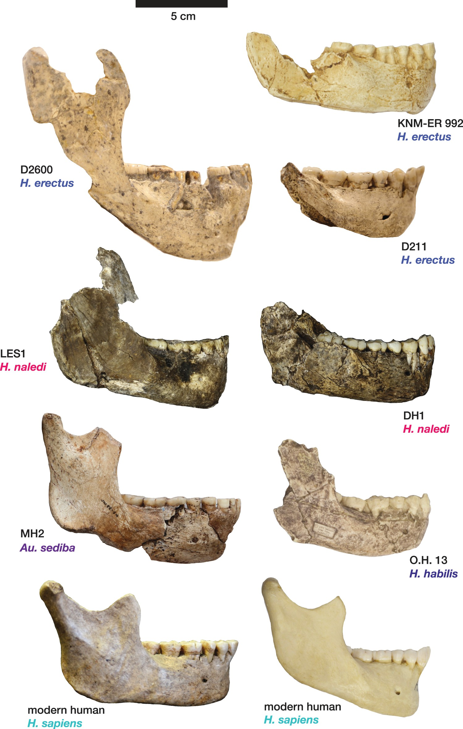 Comparison of H. naledi mandibles to other hominin species, from lateral view.